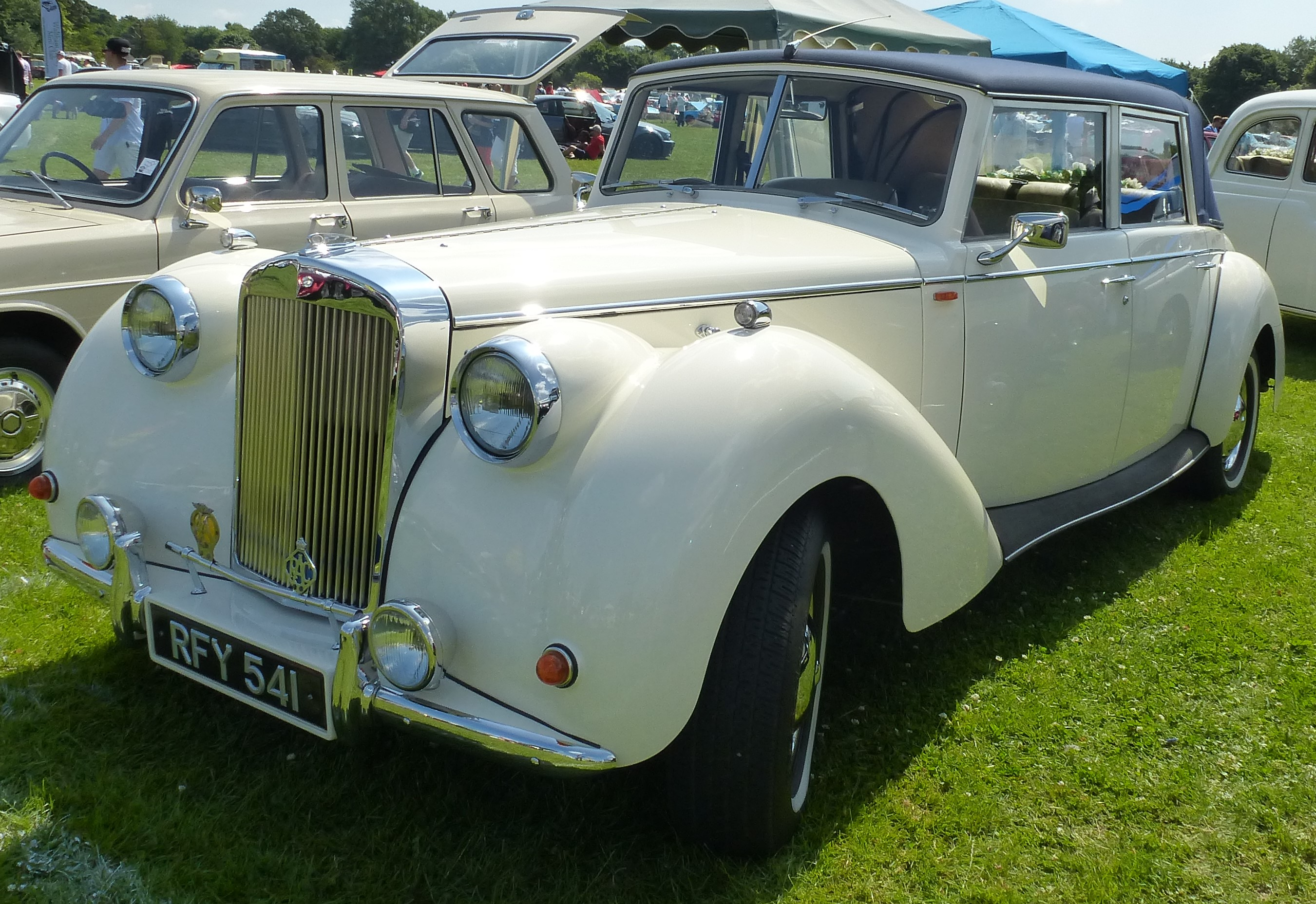 Royale Windsor 2000